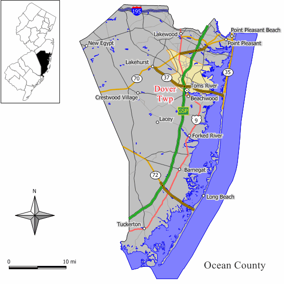 Source: Jim Irwin Original work by Jim Irwin, December 2005.